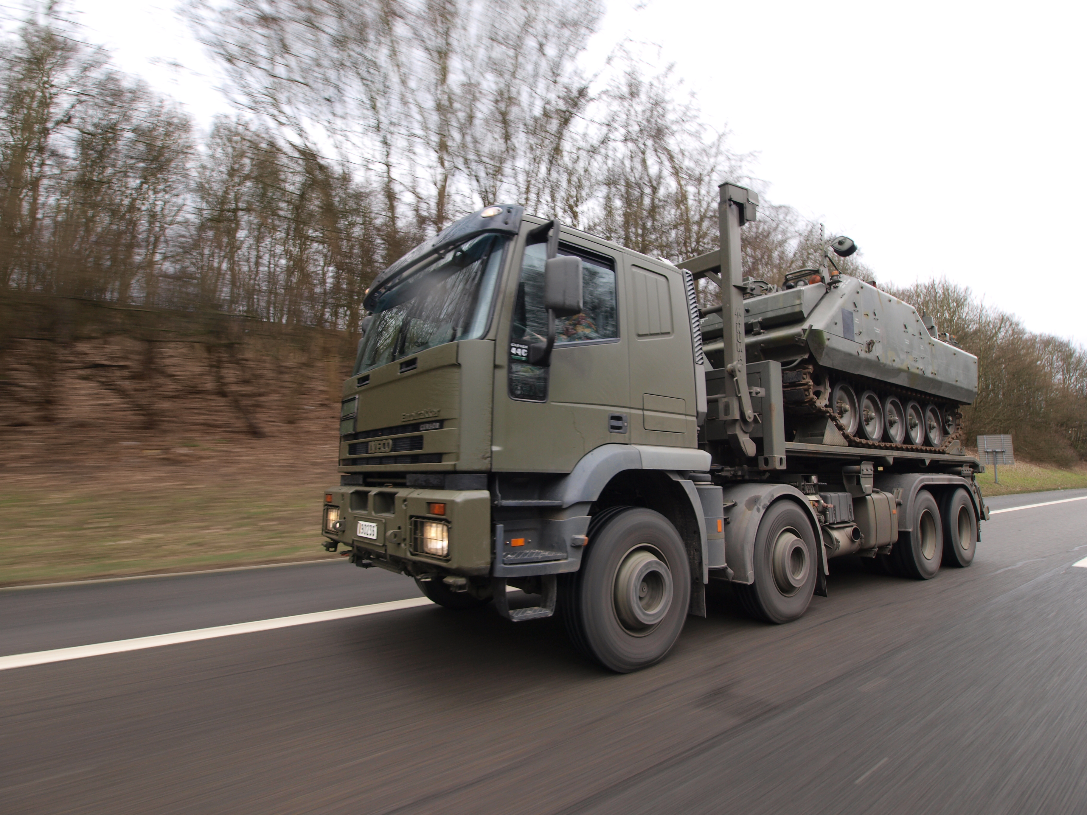 Iveco EuroTrakker Cursor 90236 with AIFV-B 74149